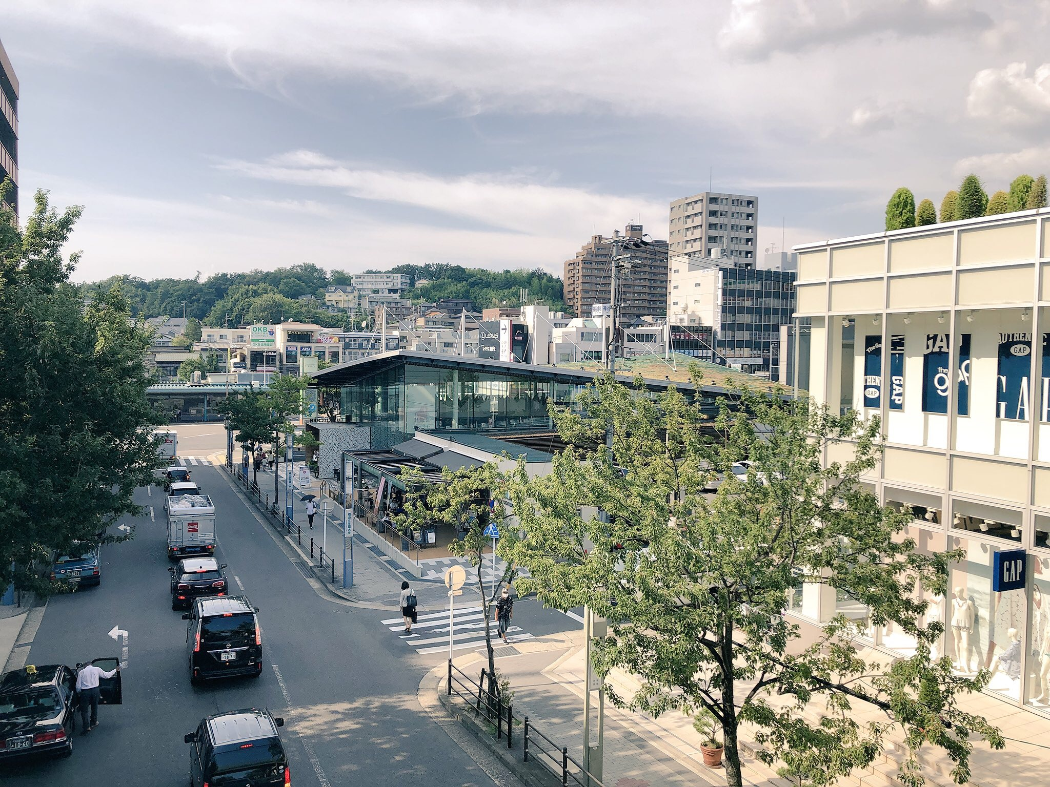 Hoshigaoka Terrace02